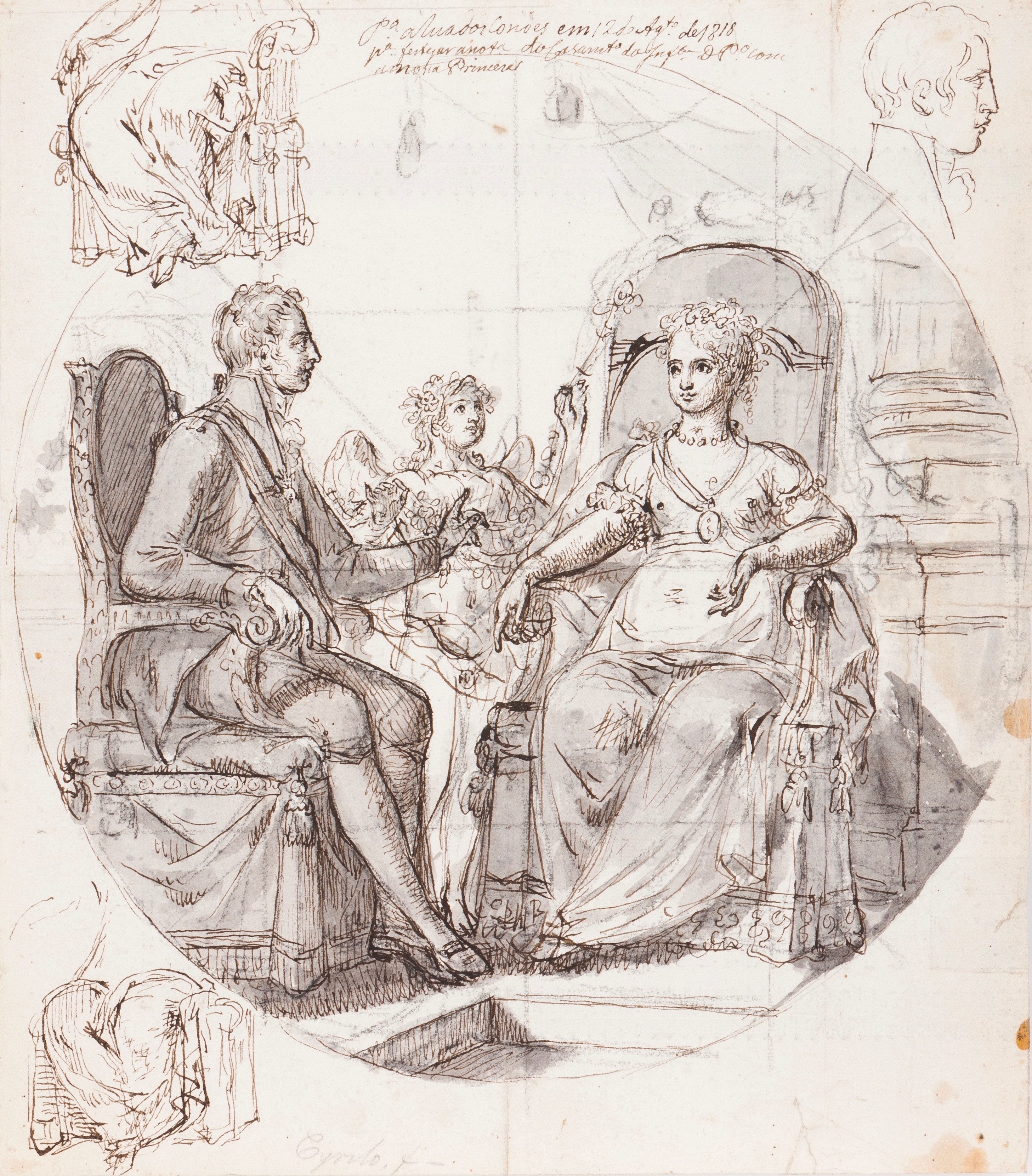 A rare preparatory drawing (indian ink and white gouache) for a Rua dos Condes Theatre set, depicting the marriage of Pedro Carlos de Bourbón y Braganza, Infante of Spain, to Maria Teresa of Braganza, Princess of Beira.